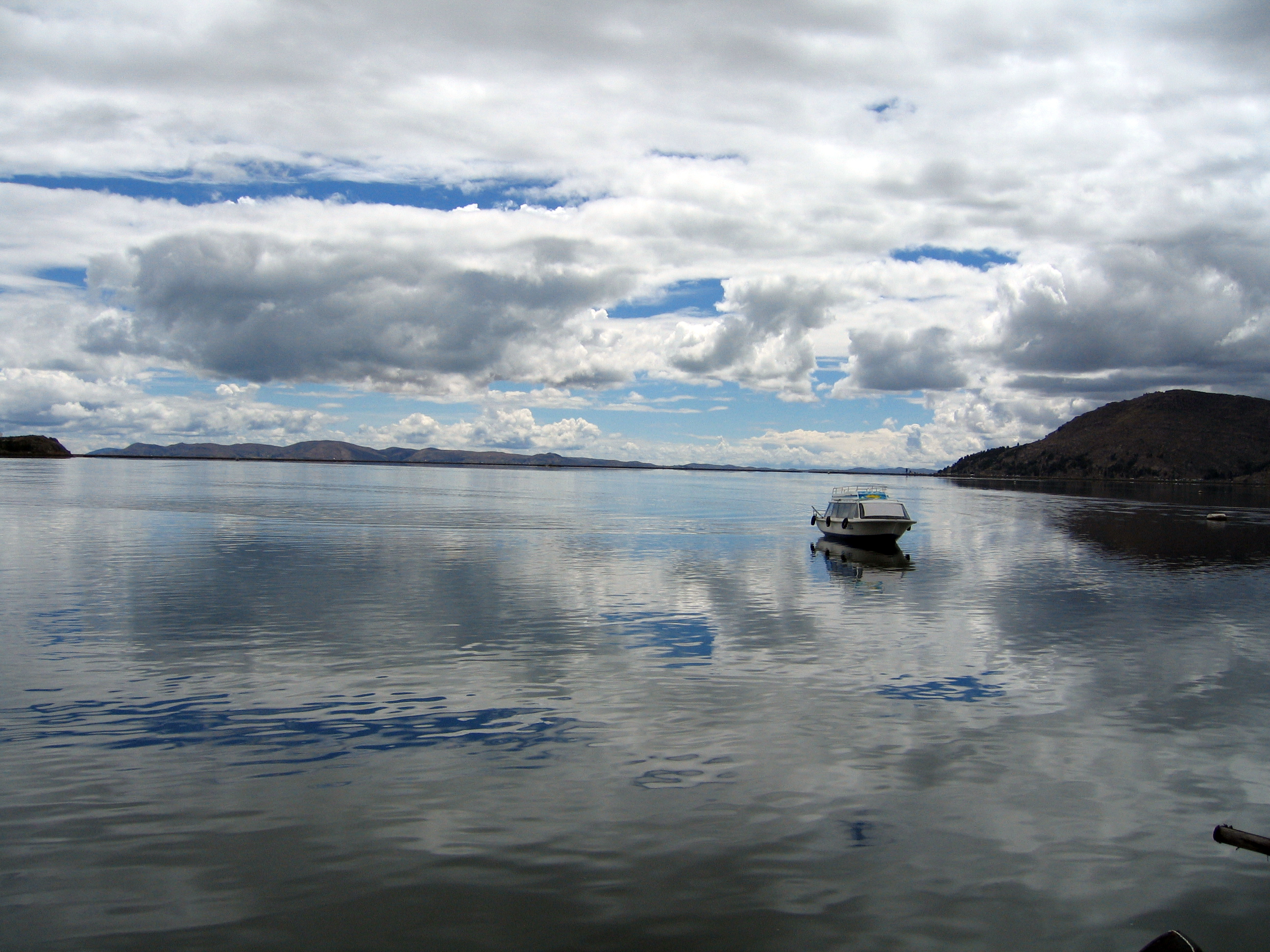 Lake Titicaca Puno Peru